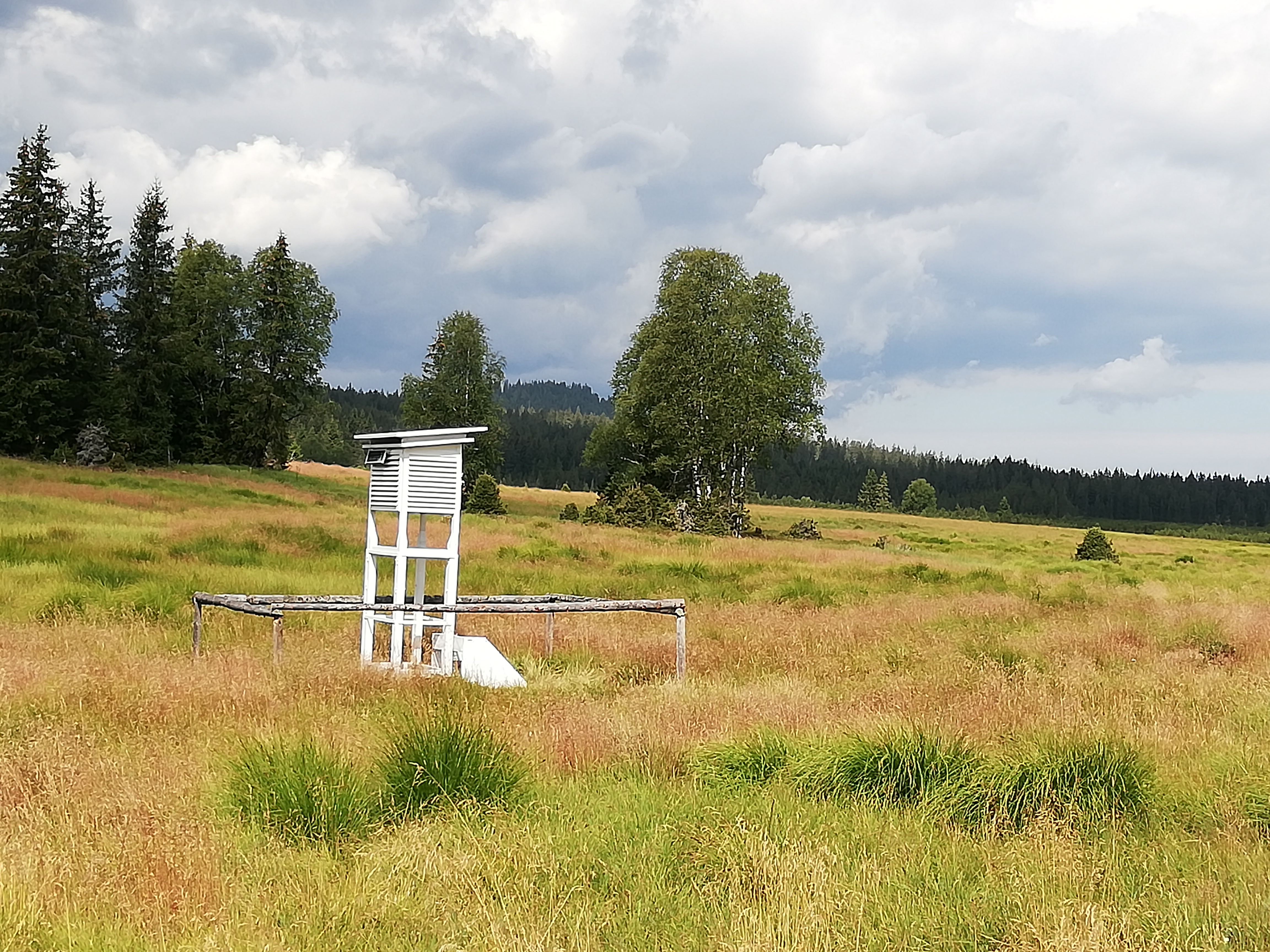 Weather Station "Pearl" (Perla), the barely visible white Stevenson screen in the background, is located in a valley near Jezerni slať (moor) in the cadastral area Kvilda on the Kvilda stream (Šumava). This place is among the coldest places in the Czech Republic. Detailed view of the meadow with a weather station, in the background you can see (between birches) the summit of the Šumava mountain Sokol (also Antýgl, 1253 m.)